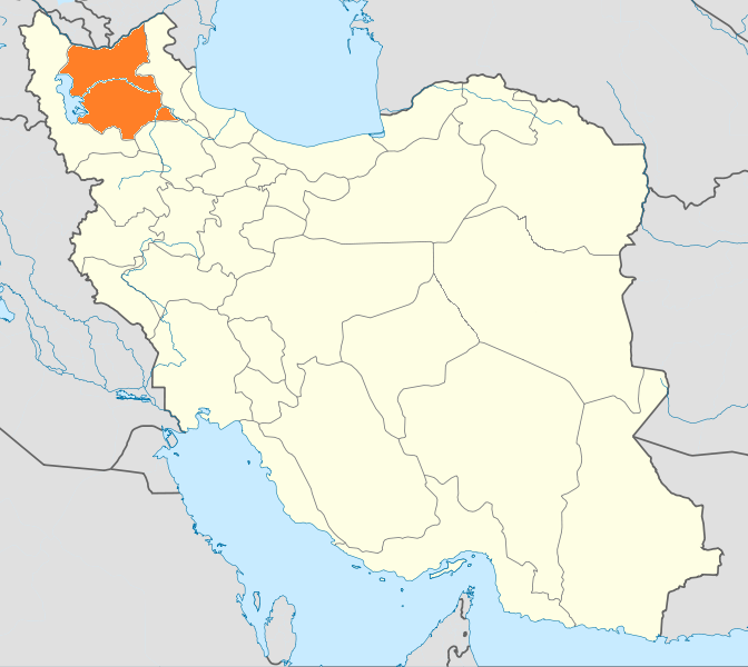 Locator map of Iran